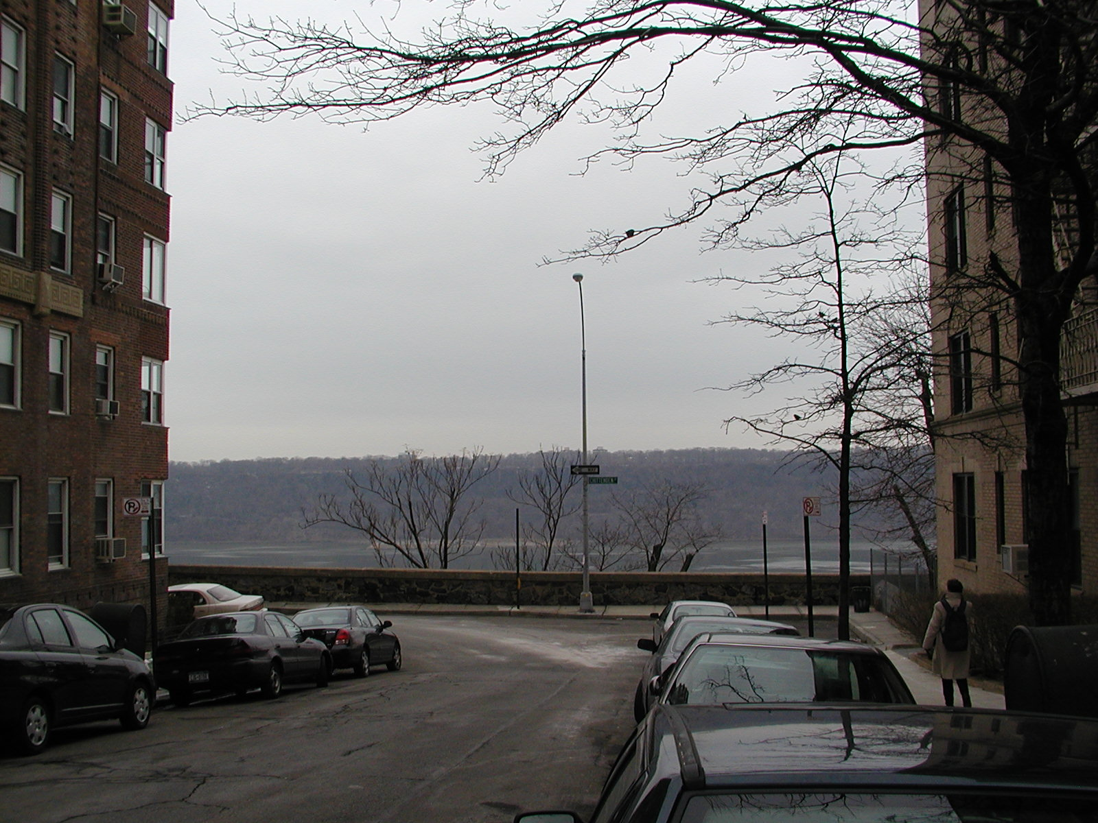 New Jersey and the Hudson River as seen from the 187th Street in Hudson Heights NYC. The Hudson Cliff Building on the right. Chittenden Avenue continues to the left.